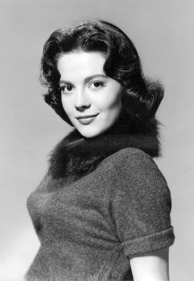 Publicity photo of Natalie Wood